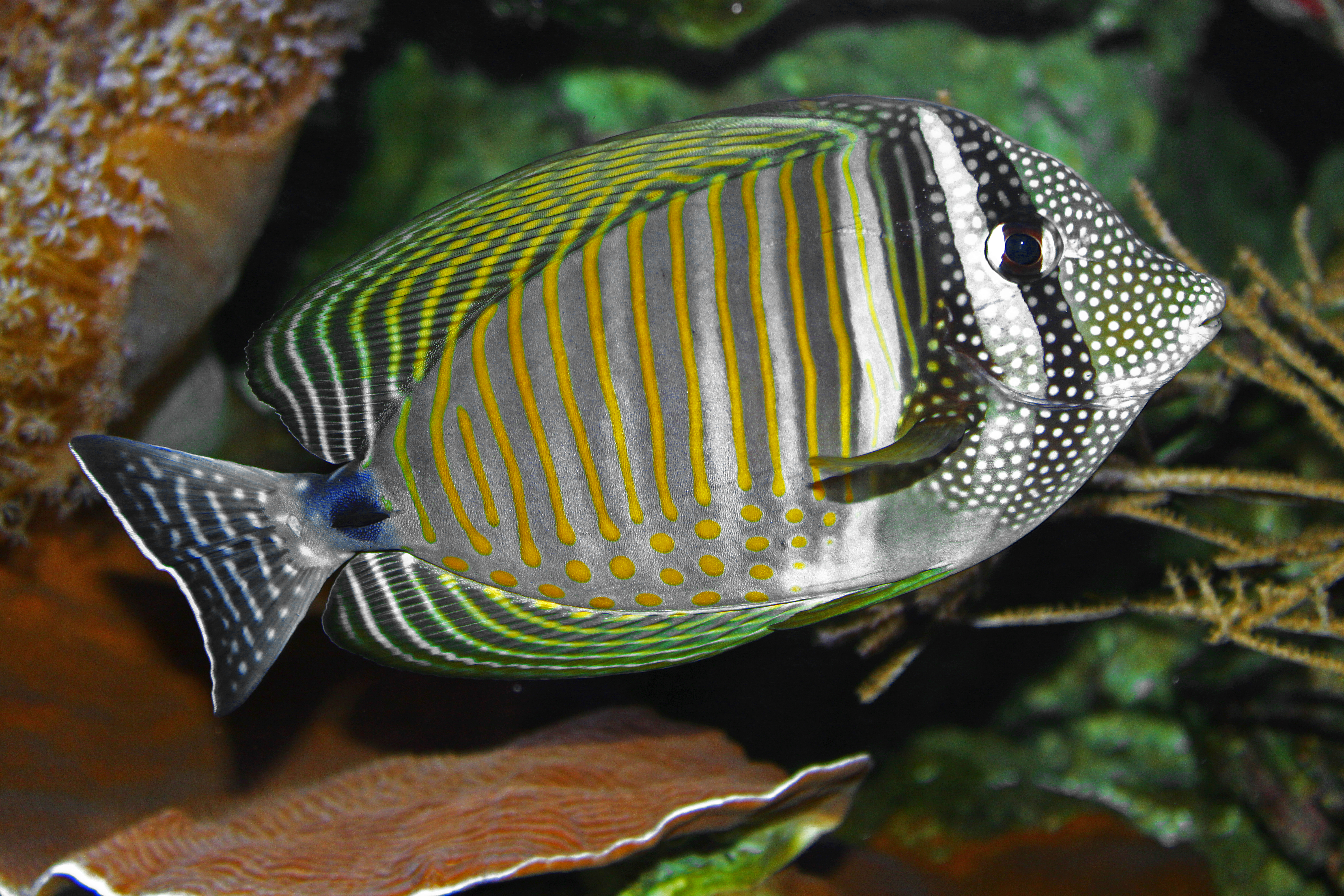 Zebrasoma desjardinii, Acanthuridae, Desjardin's Sailfin Tang; Staatliches Museum für Naturkunde Karlsruhe, Germany.